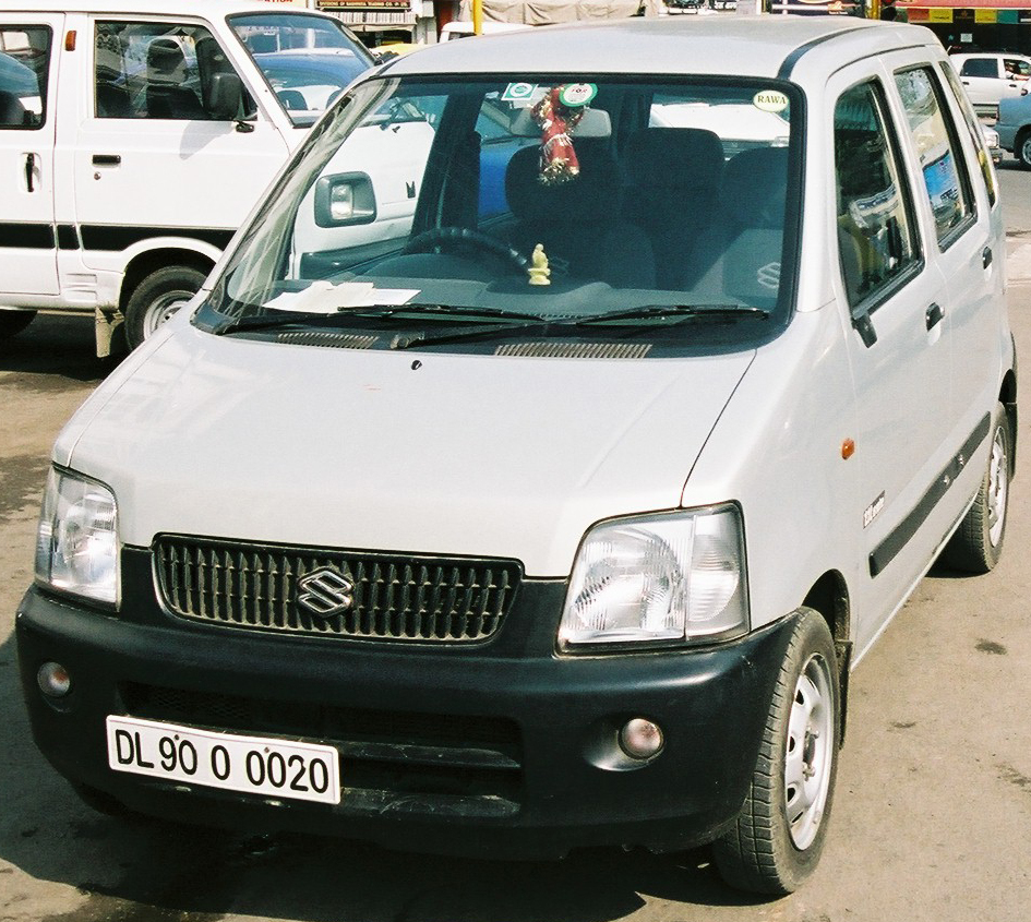 Maruti Suzuki Wagon R in Connaught Place, Delhi, India. A Maruti Omni can be seen behind.